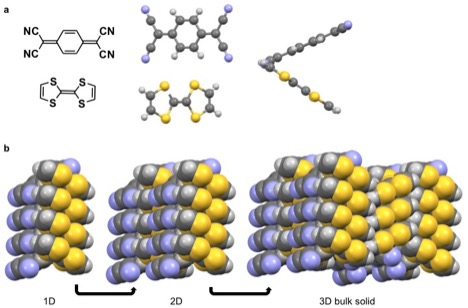 This image shows the intermolecular interactions and packing in three dimensions of TTF-TCNQ as a solid.